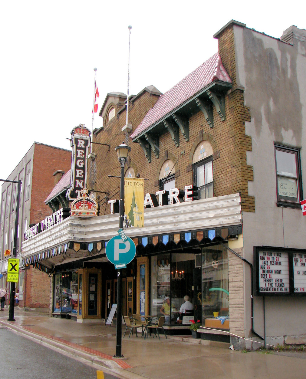 Picton (Prince Edward County), Ontario, Canada